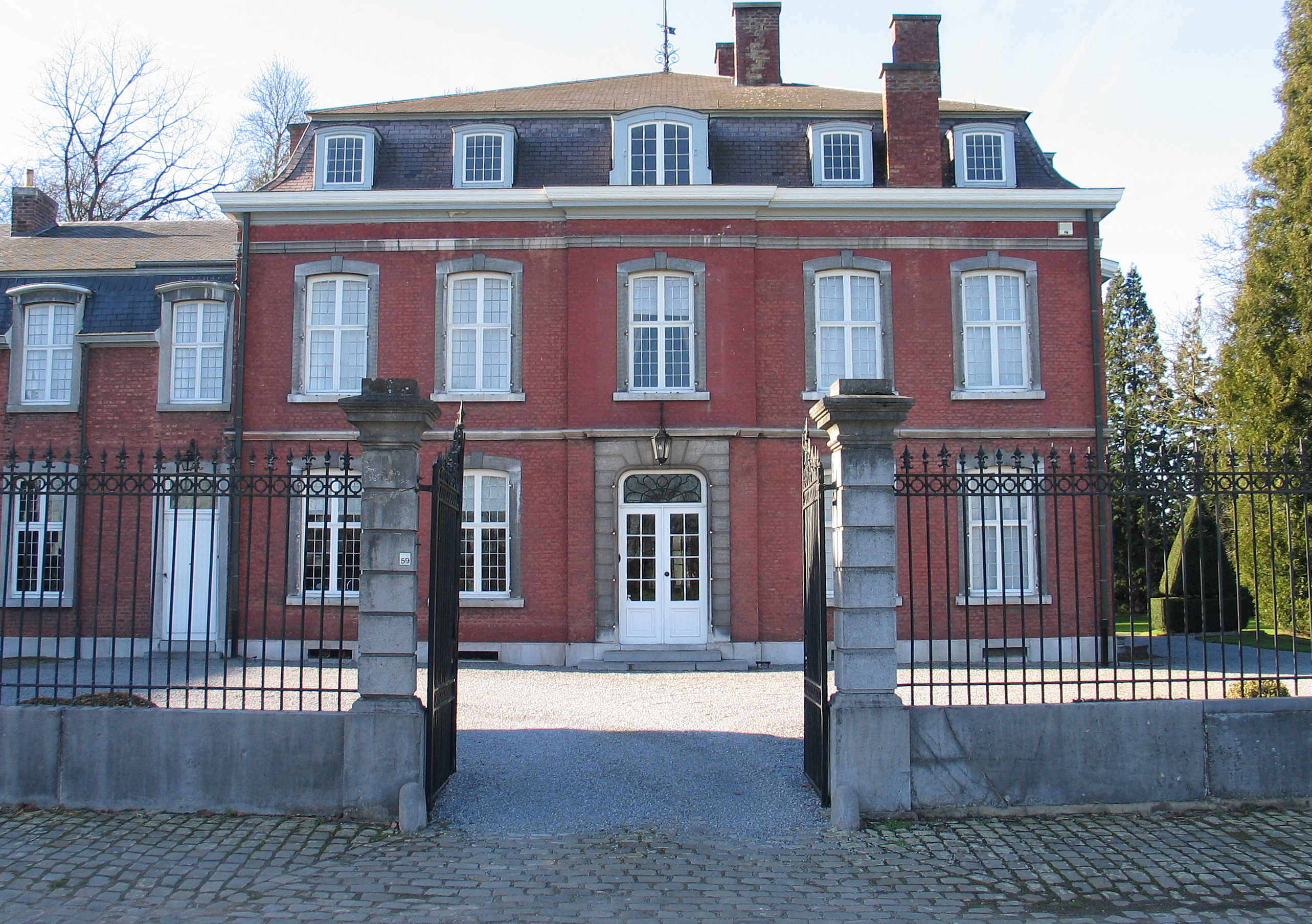 Castle in Bommershoven, Borgloon, Belgium (not rococo; rather late classical baroque)